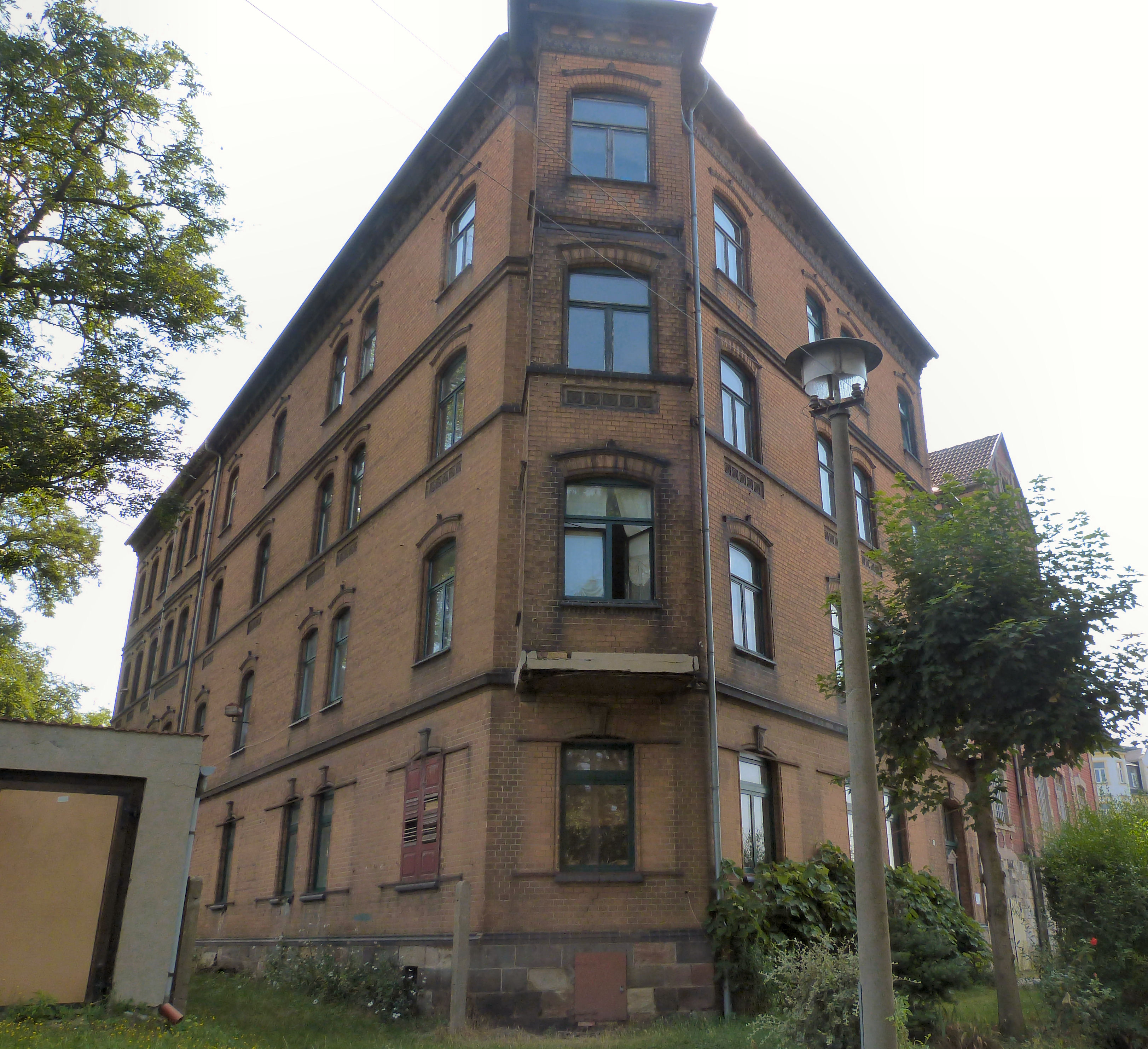 House No. 11, Am Mühlberg, Weissenfels, Saxony-Anhalt